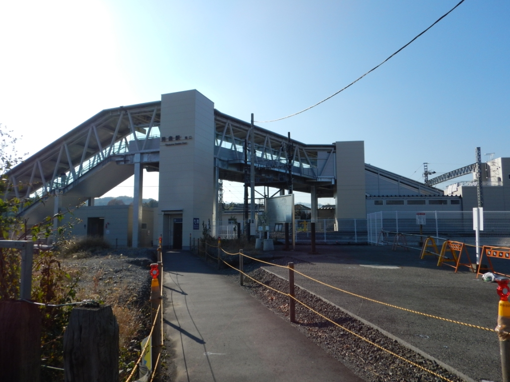 The easst entrance to Obusuma Station on the Tobu Tojo Line in Saitama Prefecture, Japan